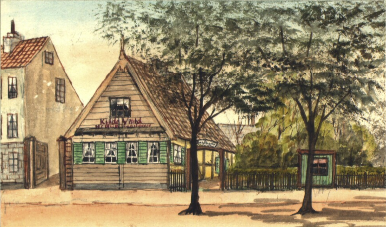 The country house Kildevæld which was located at present-day Østerbrogade 165 (the corner of Strandvejen and Borgervænget) in Copenhagen, Denmark